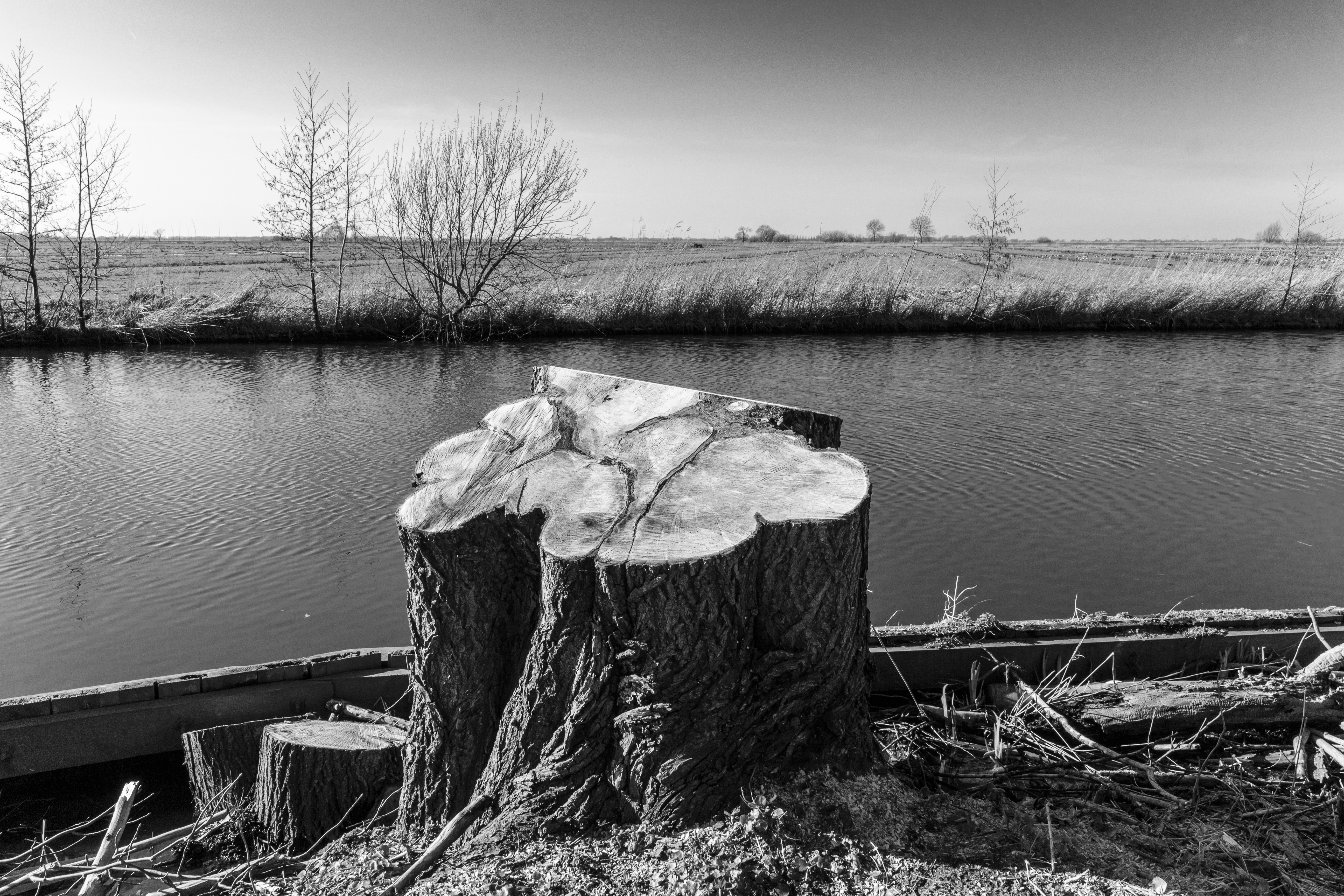 Ballingbuer at Goingarijp. Tree stump on the waterfront of the Lijkvaart.